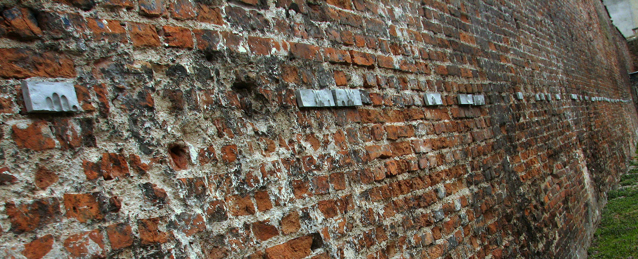 Symbolical handprints of postmans on the wall, where SS arrested defenders of the Polish Post Office in Gdańsk.